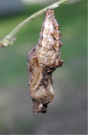 Chrysalis of Gulf Fritillary, (Agraulis vanillae)